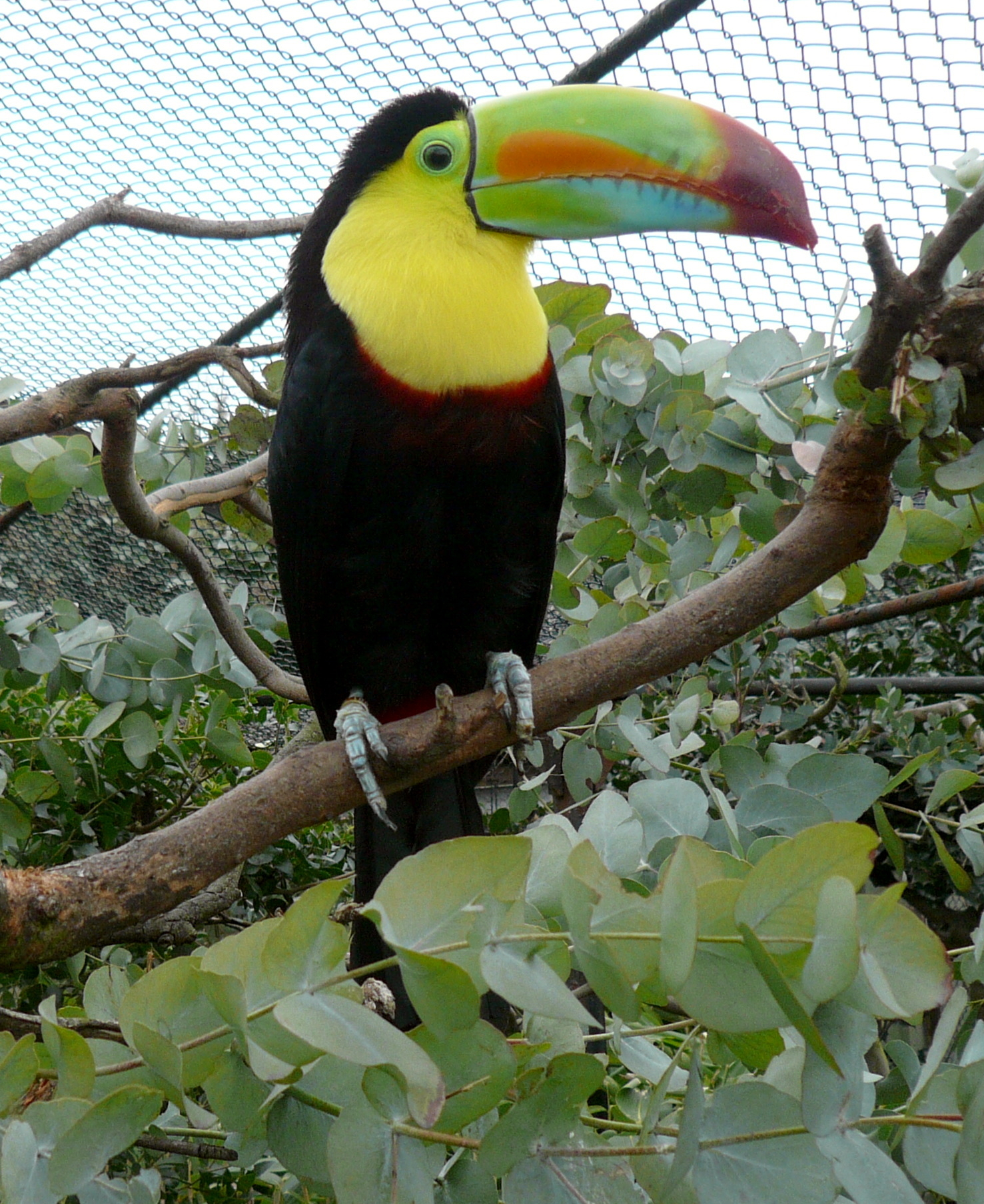 Keel-billed Toucan also known as Sulfur-breasted Toucan, Rainbow-billed Toucan. At London Zoo, London, England.